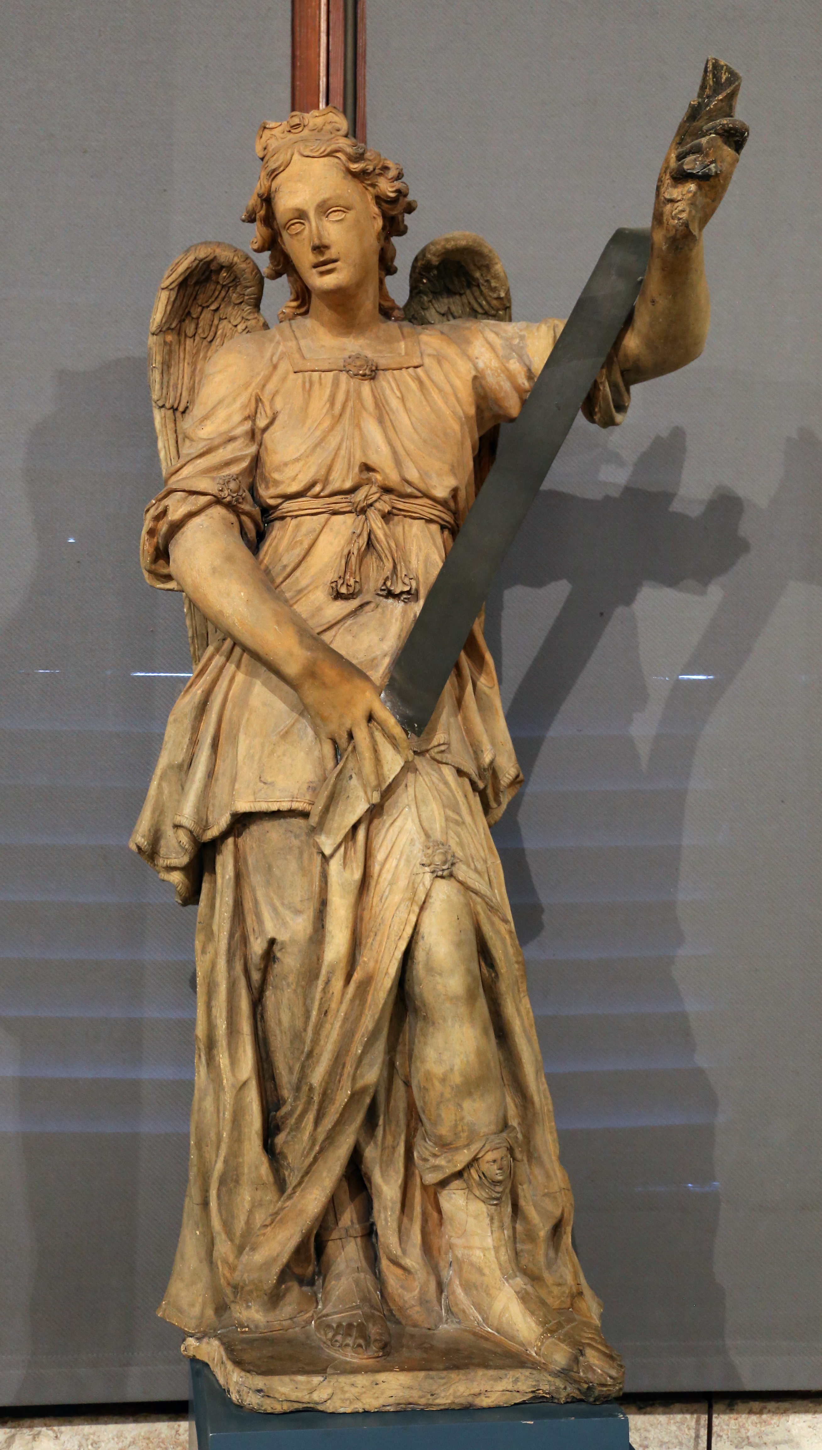 Collections of Palazzo Ducale (Mantua)